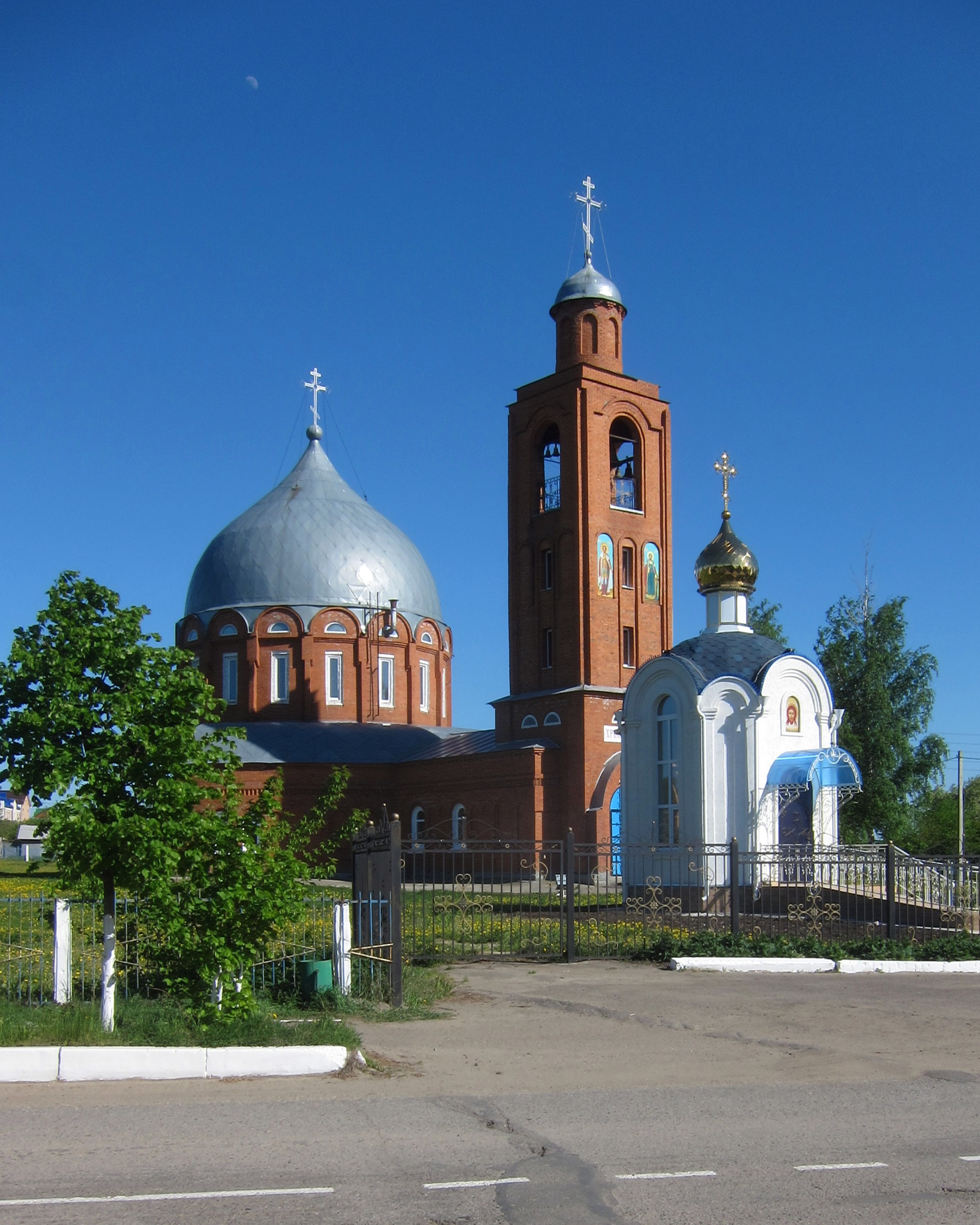 St. Alexander Nevsky Church. selo Yalchiki, Yalchiksky District, Chuvashia, Russia